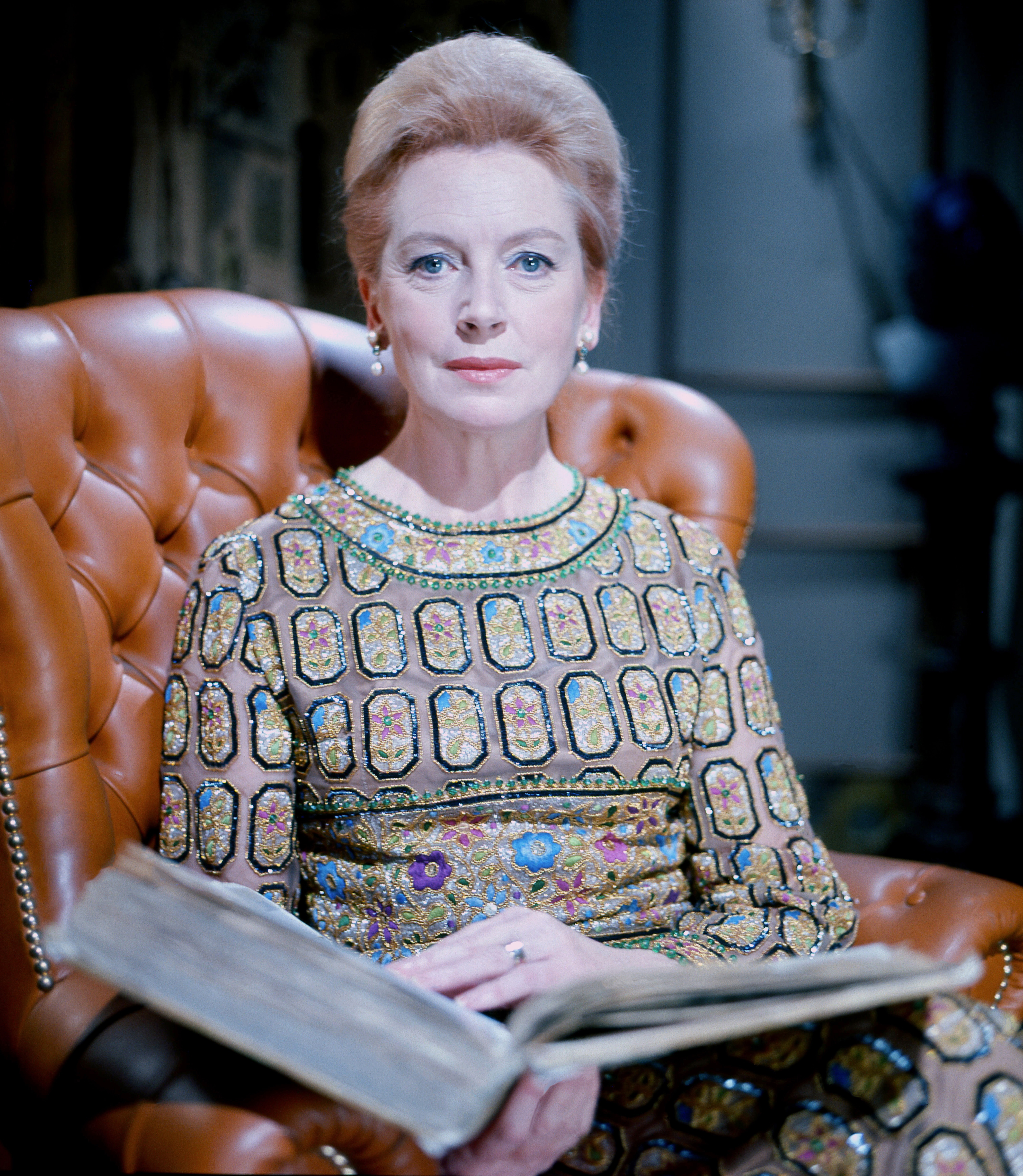 Deborah Kerr in London